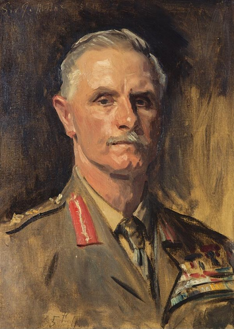 Field Marshal George Milne, 1st Baron Milne (1866–1948), Commander of British forces in Salonika from 1916 to 1918. Study for portrait in General Officers of World War I.